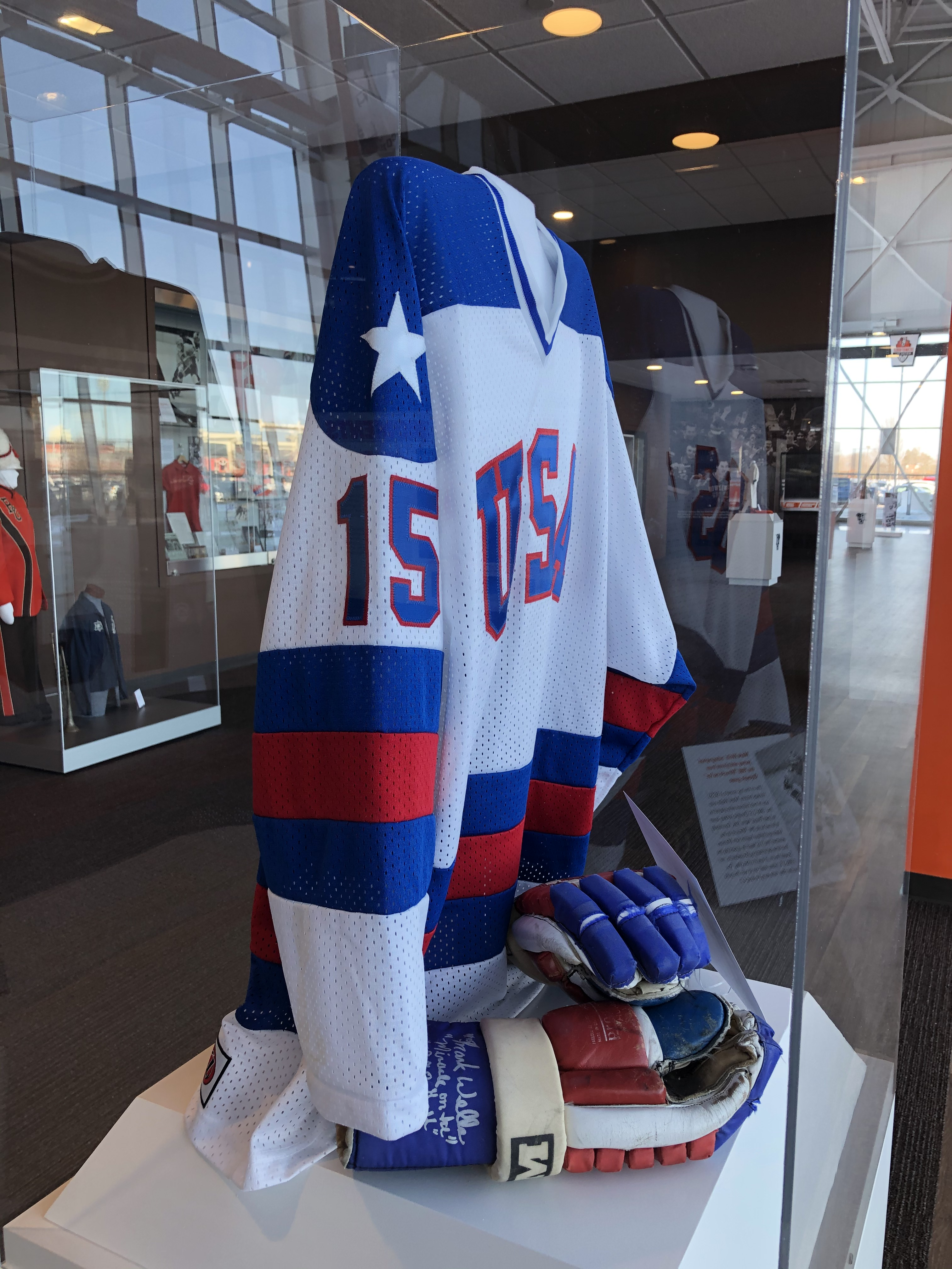 Mark Wells Jersey from the 1980 Miracle on Ice Olympic Game at the Stroh Center at Bowling Green State University.